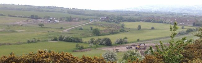 View of Waldorf Playing Field, Hyde.